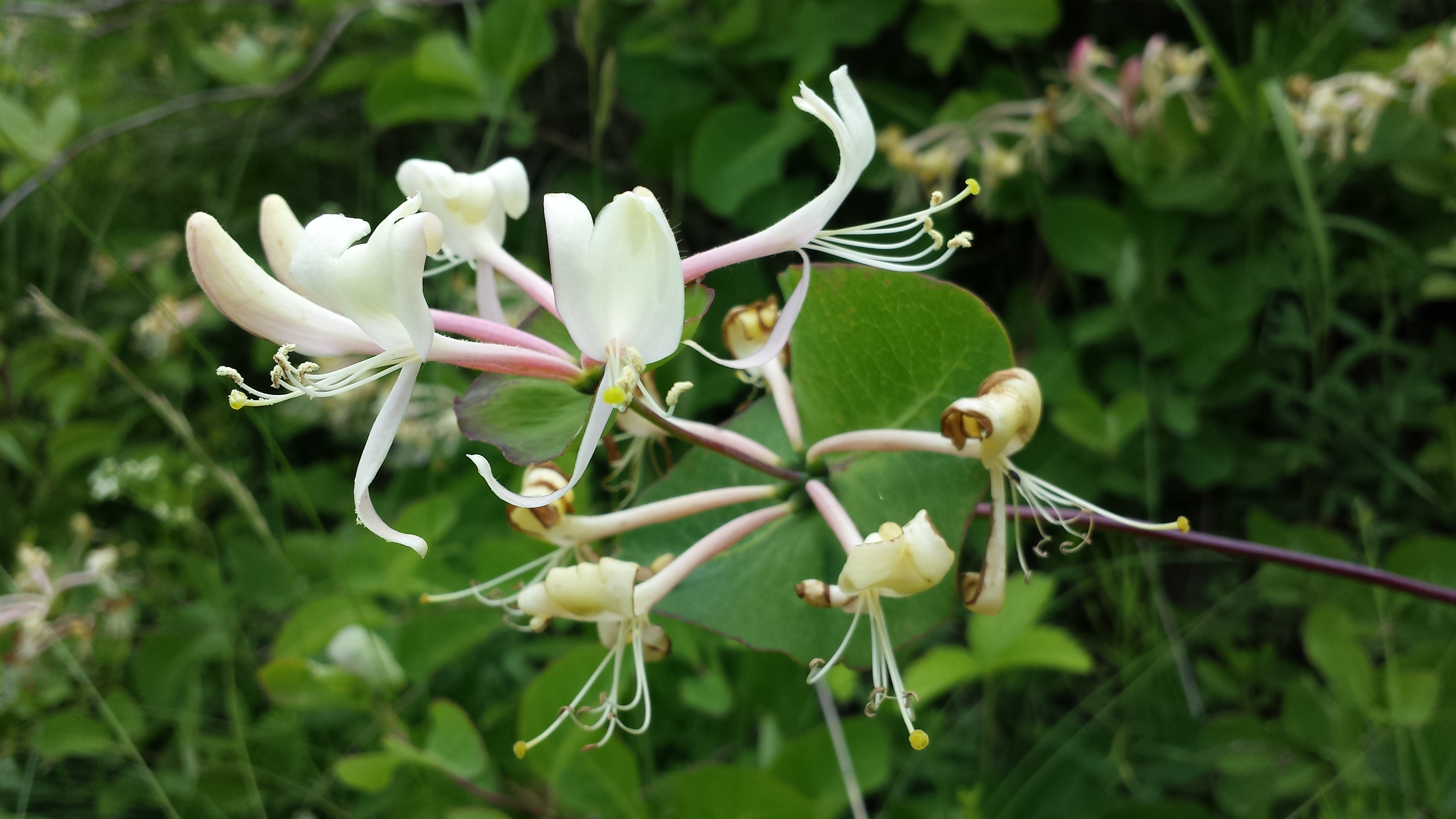 Florescence Taxon: Lonicera caprifolium (sensu Fischer et al. EfÖLS 2008 ISBN 978-3-85474-187-9) Location: natural reserve "Mühlberg" near Goggendorf, district Hollabrunn, Lower Austria - ca. 260 m a.s.l. Habitat: dry grassland on Loess